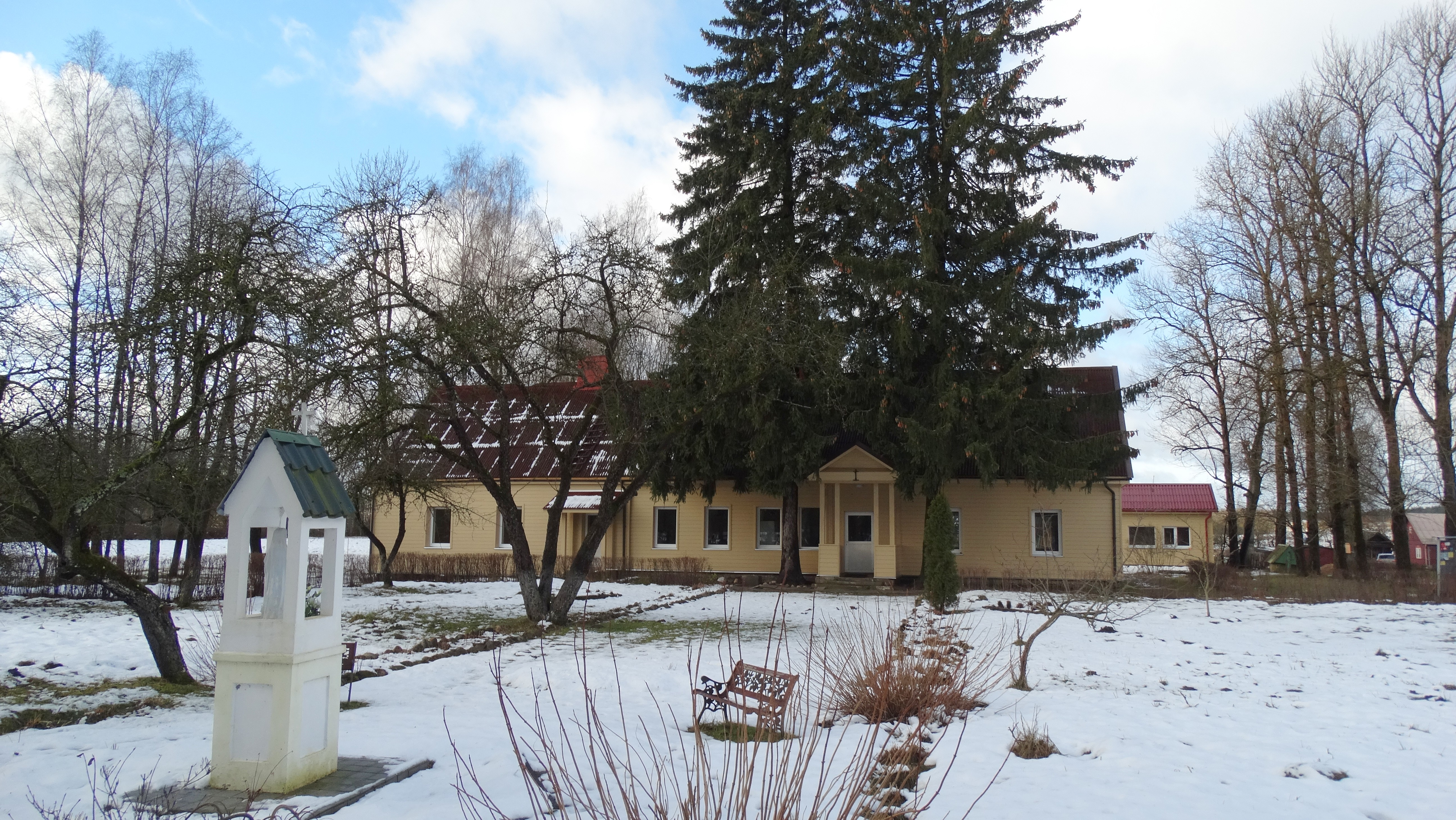 School, Platiniškės, Vilnius, Lithuania